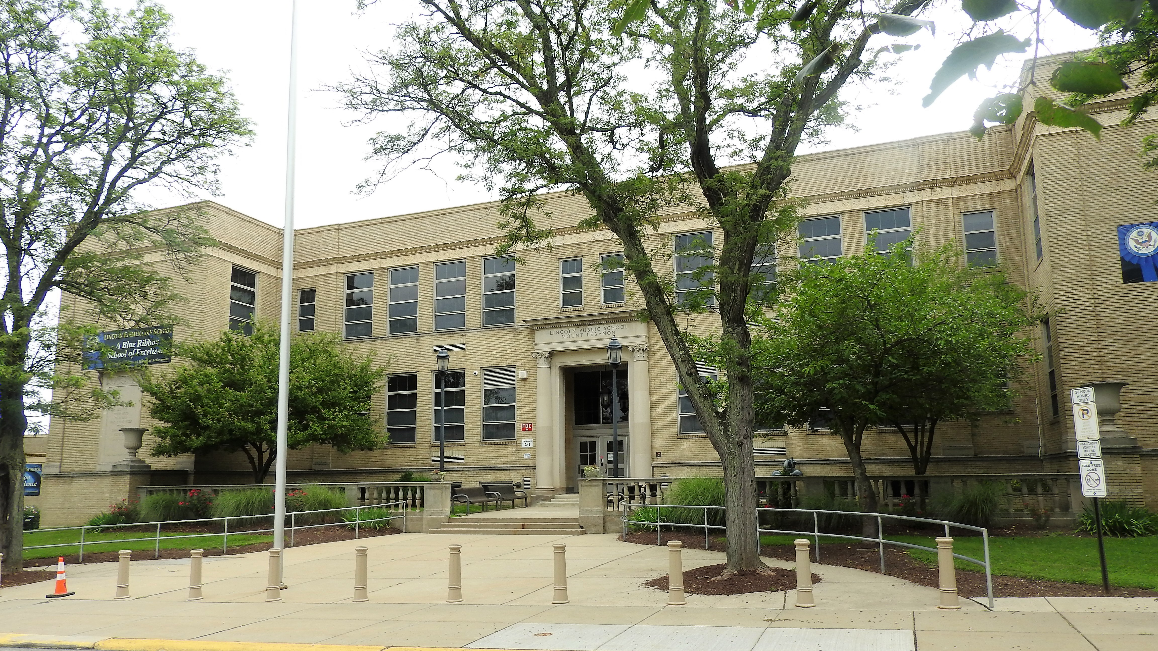 Looking northeast across Ralston Place on a cloudy late morning